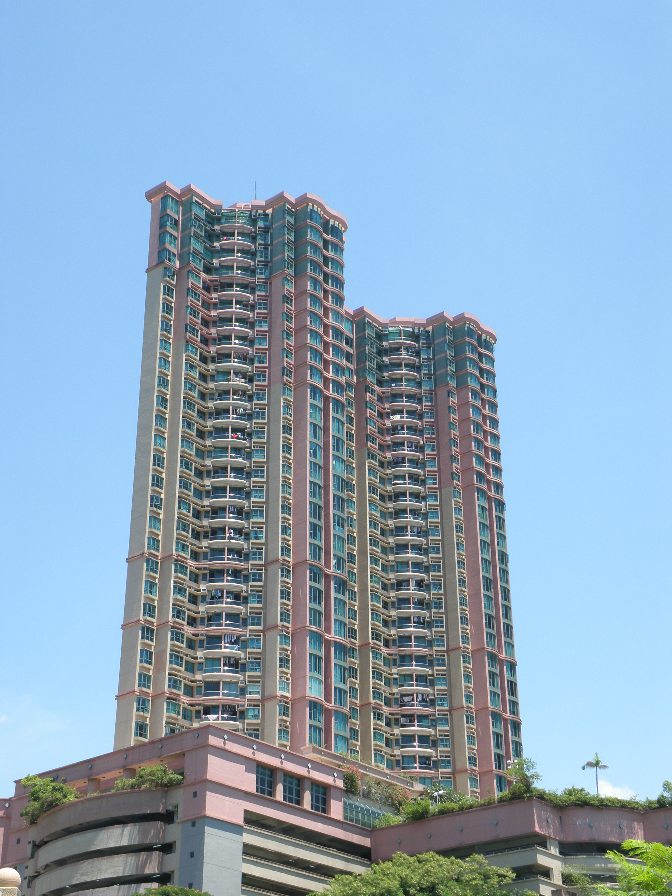 Sea Crest Villa in Sham Tseng, Hong Kong.